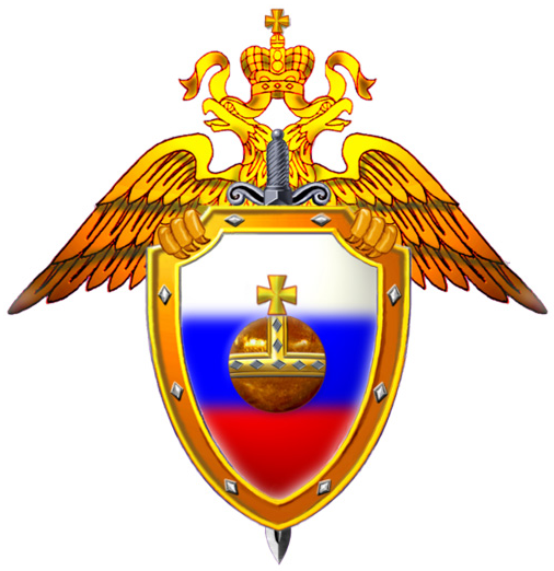 Main emblem of the Main Directorate of Special Programs of the President of the Russian Federation